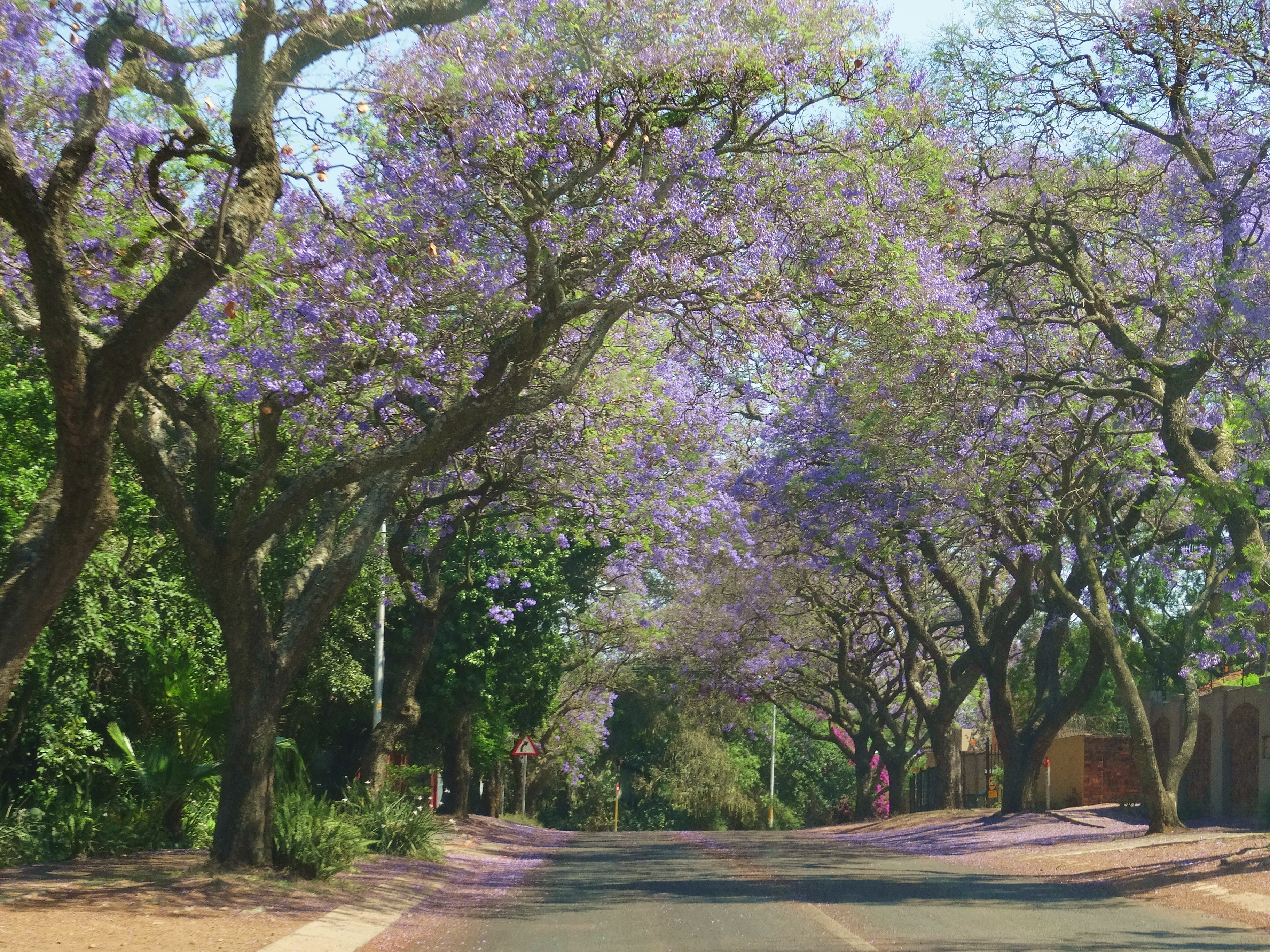 Street in Waterkloof suburb, Pretoria.